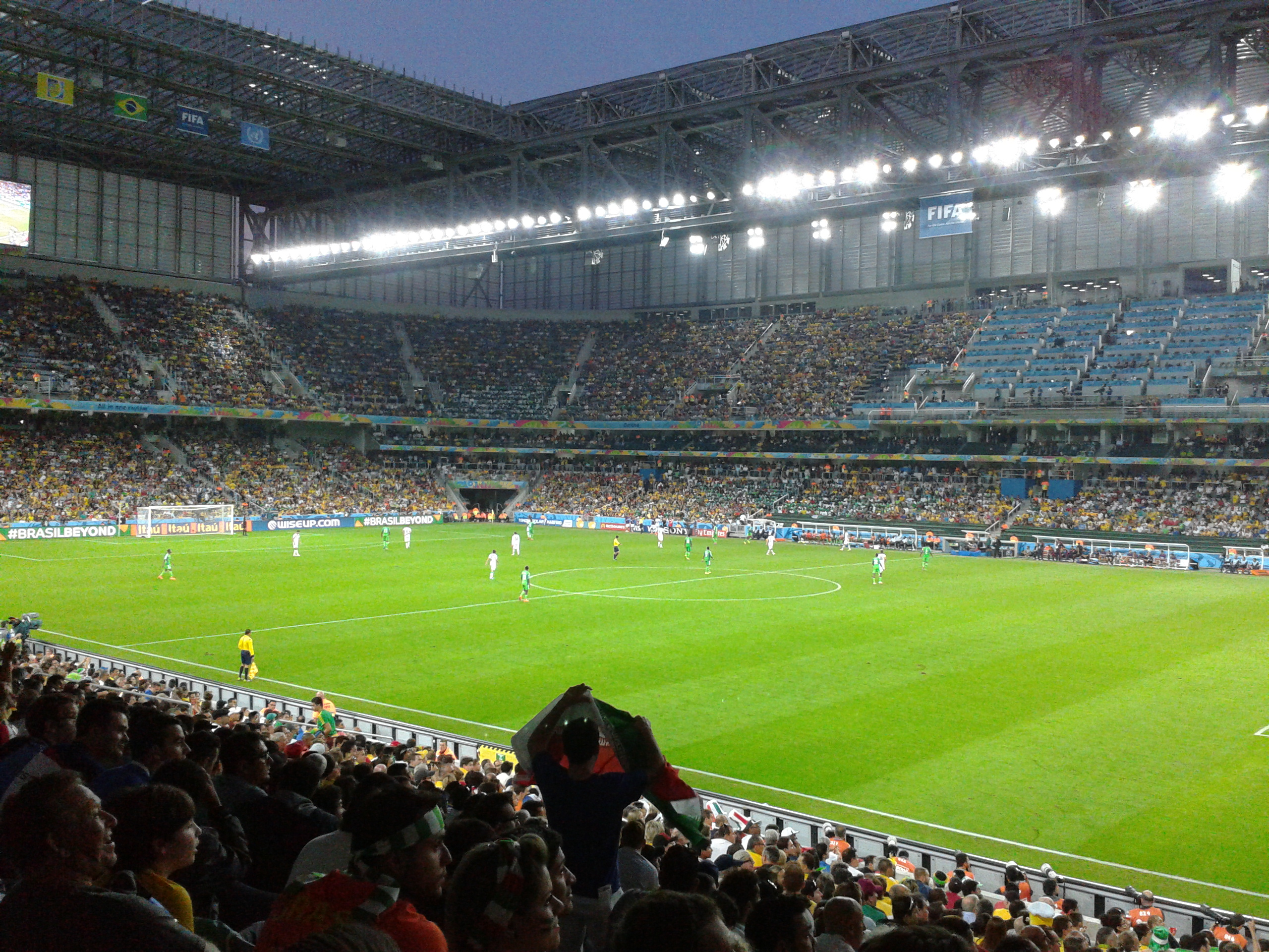 Iran and Nigeria match at the FIFA World Cup (2014-06-16)